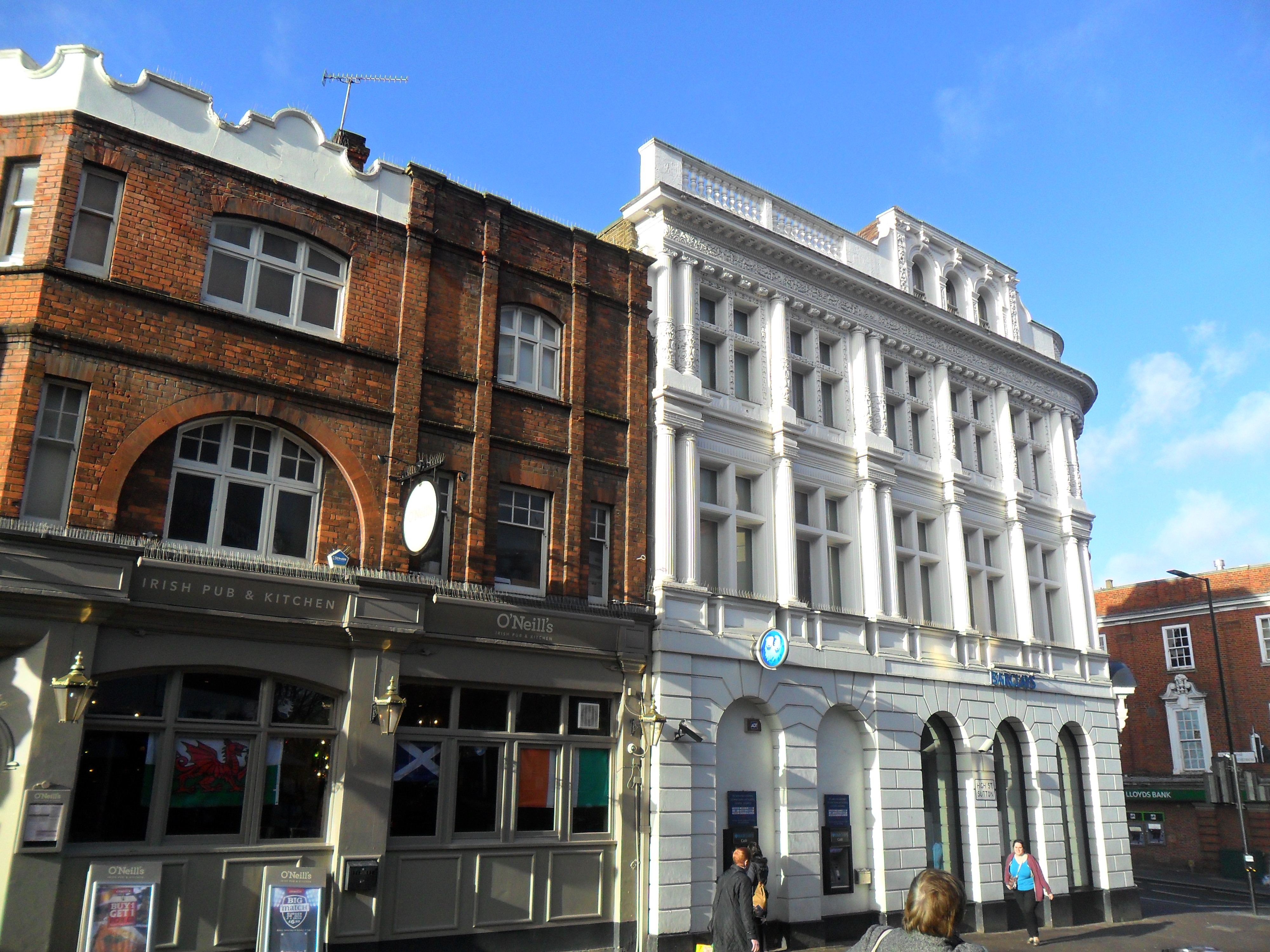 Street scene in the Conservation Area section of Sutton High Street, one of south-west London's main shopping districts along with Richmond and Kingston. Sutton is the main town in the London borough of the same name. It is about 10 miles from central London. It has a Surrey postcode for historic reasons, but is officially in London.